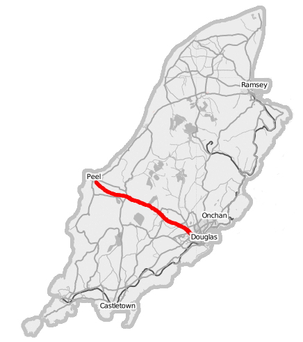 This map may be incomplete, and may contain errors. Don't rely solely on it for navigation.